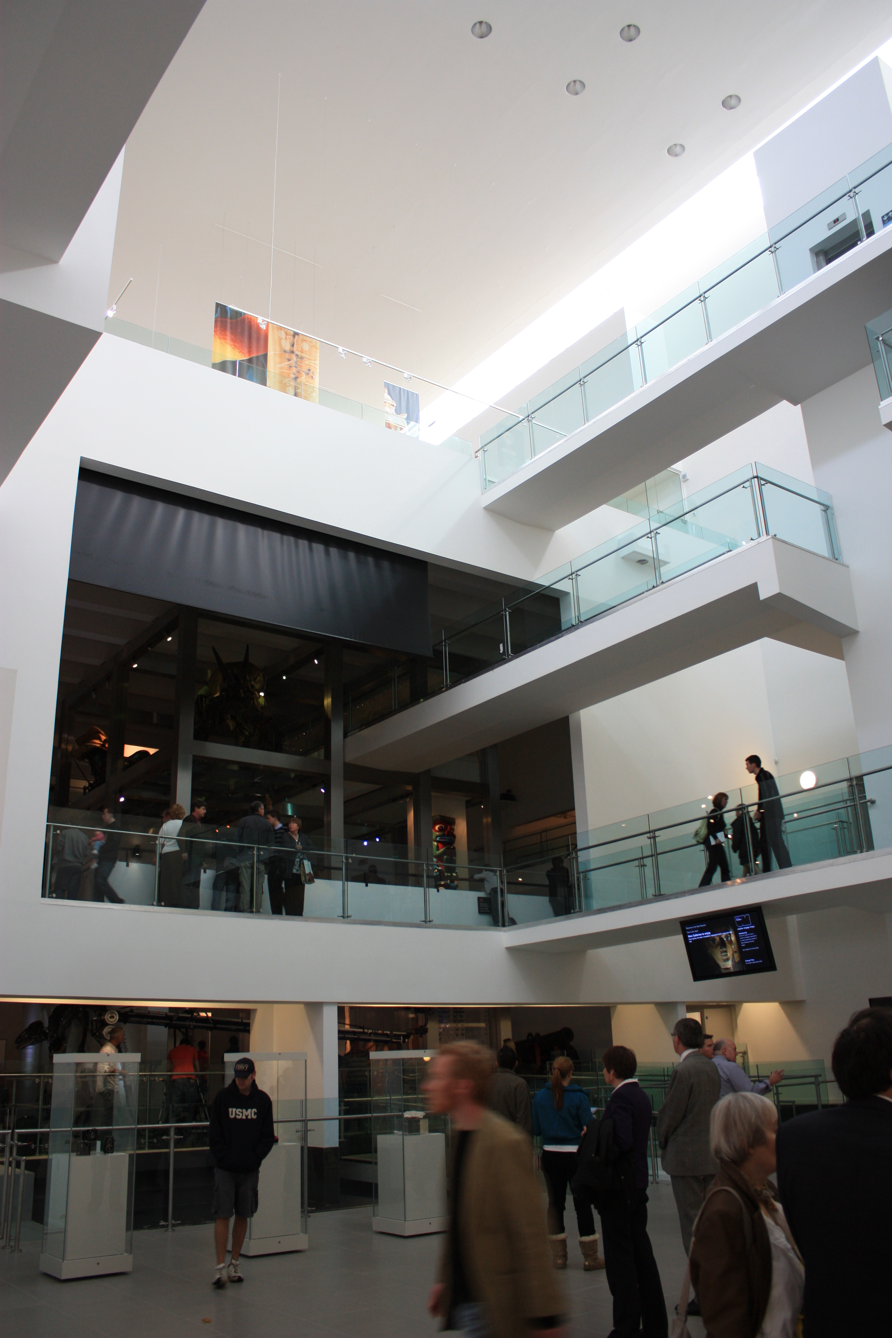 Ulster Museum, Belfast, Northern Ireland - Re-opening Day, 22 October 2009